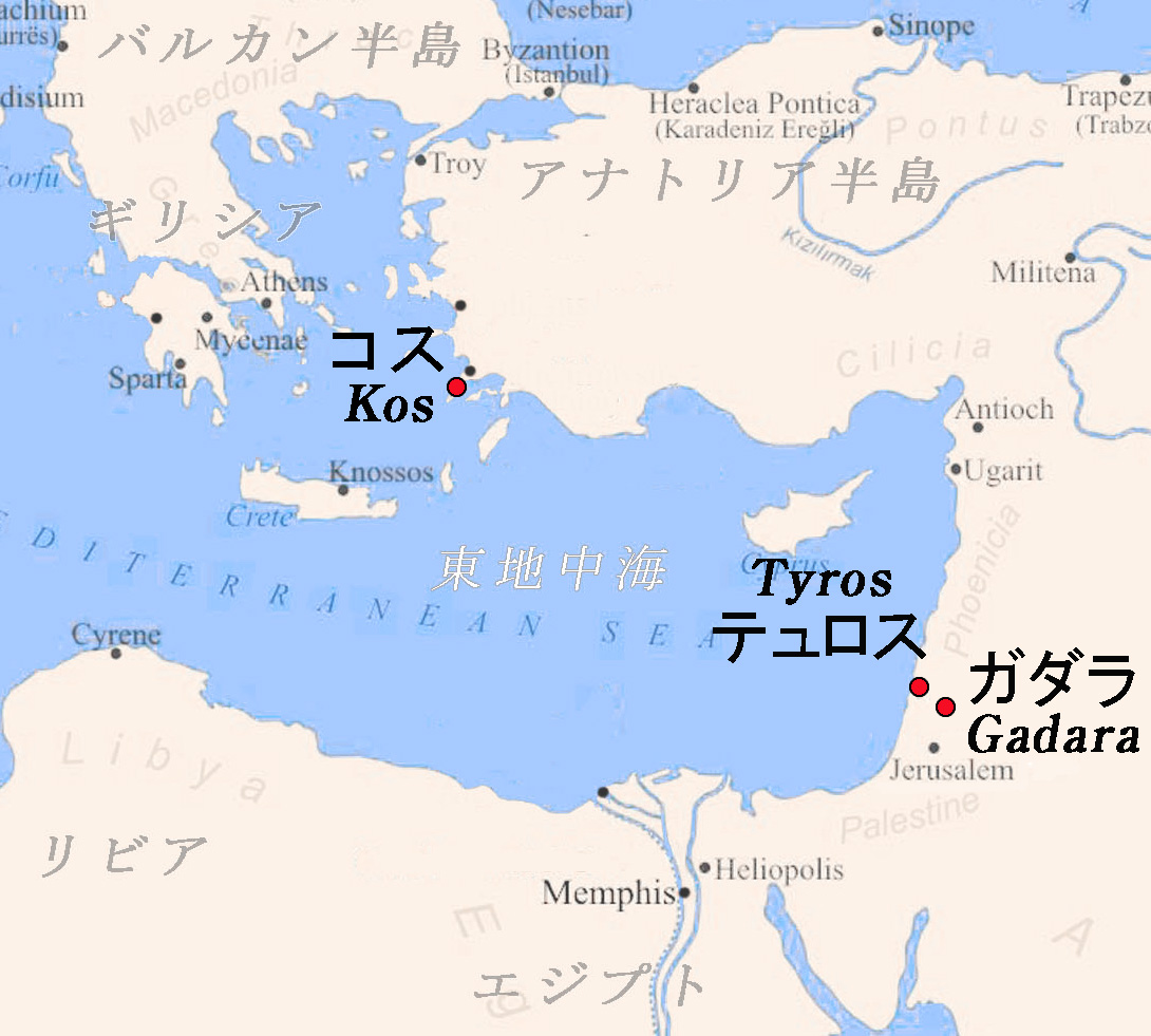 The places related with the poet Meleagros.